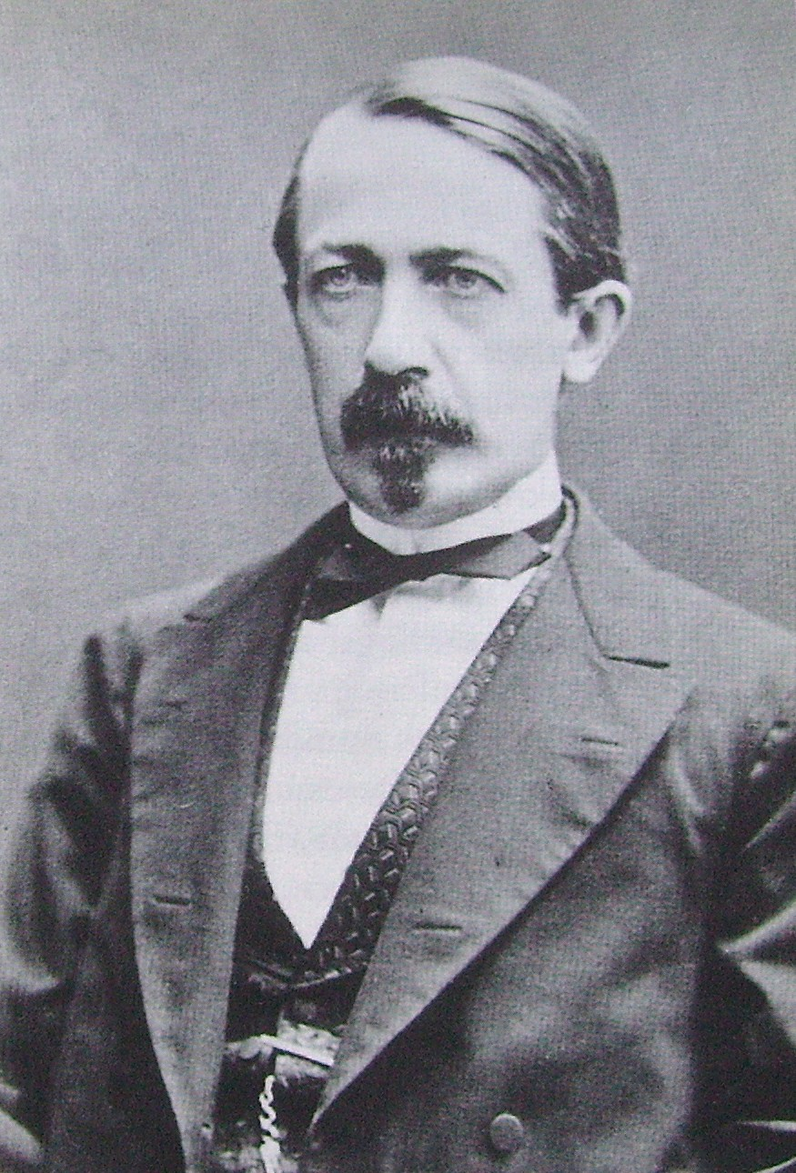 Picture of Clas Theodor Odhner, Swedish historian